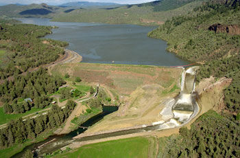 Aerial view, looking east, of Ochoco Dam and its reservoir, part of Ochoco Creek, Crook County, Oregon, USA